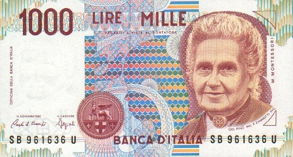 Italy 1000 lira